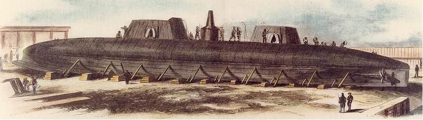 USS Keokuk (1863-1863) Hand-tinted copy of a line engraving published in Harper's Weekly, 1863, depicting the ship on the building ways at the J.S. Underhill shipyard, New York City, at about the time of her 6 December 1862 launching. Courtesy of the U.S. Navy Art Collection, Washington, D.C. U.S. Naval History and Heritage Command Photograph.